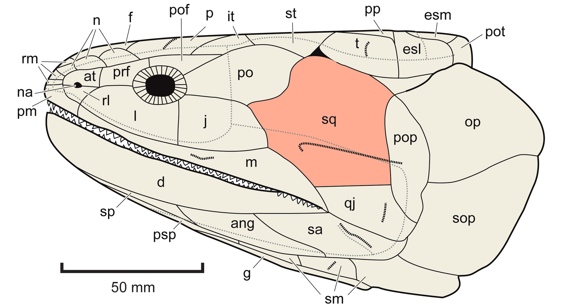 Skull drawing of Eusthenopteron foordi WHITEAVES, 1881, in lateral view with position of the squamosal highlighted in red. After Carroll (1988).[1]